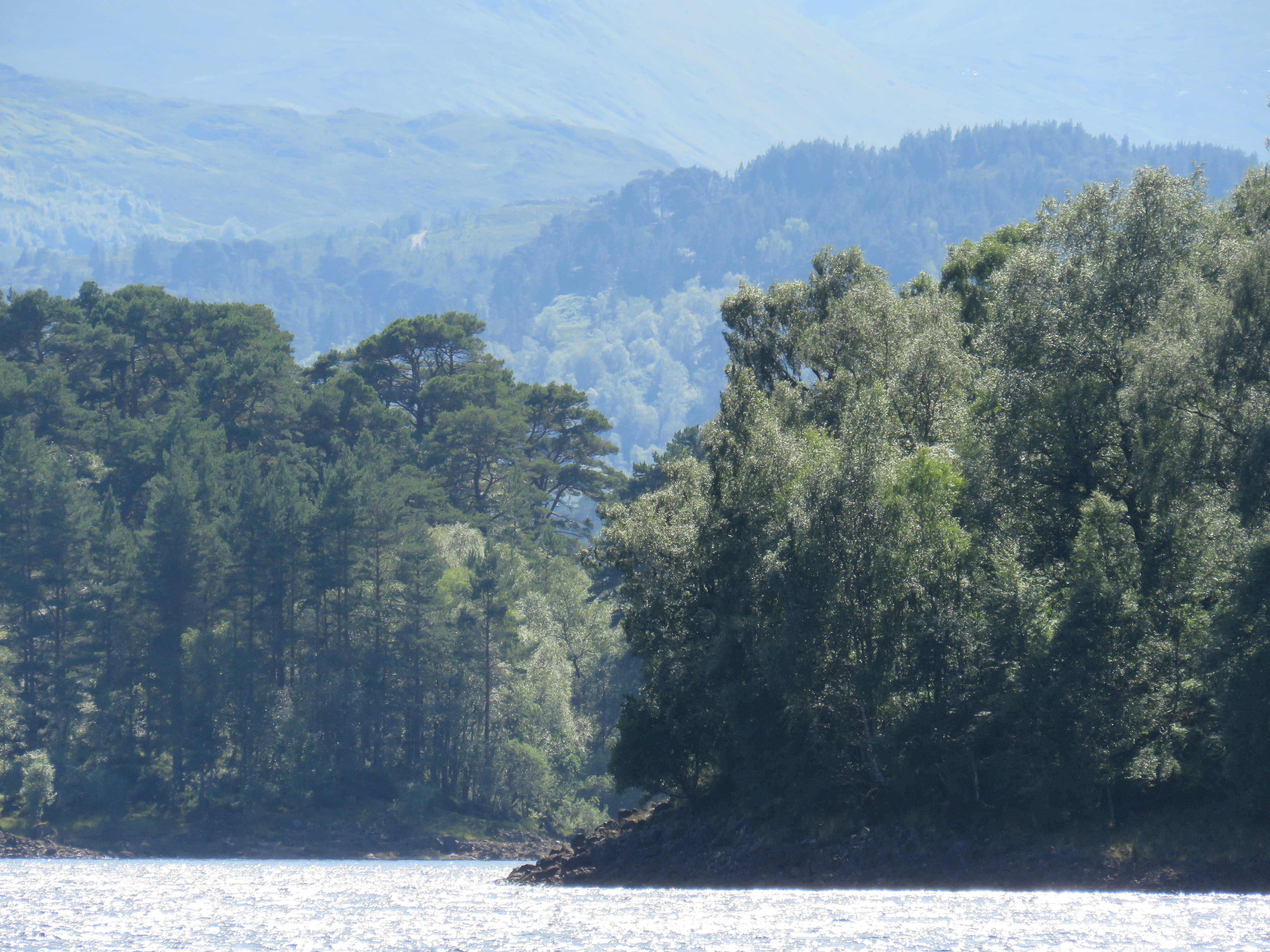 Woodland and Loch Beinn a Meadhoin, Glen Affric, Scotland